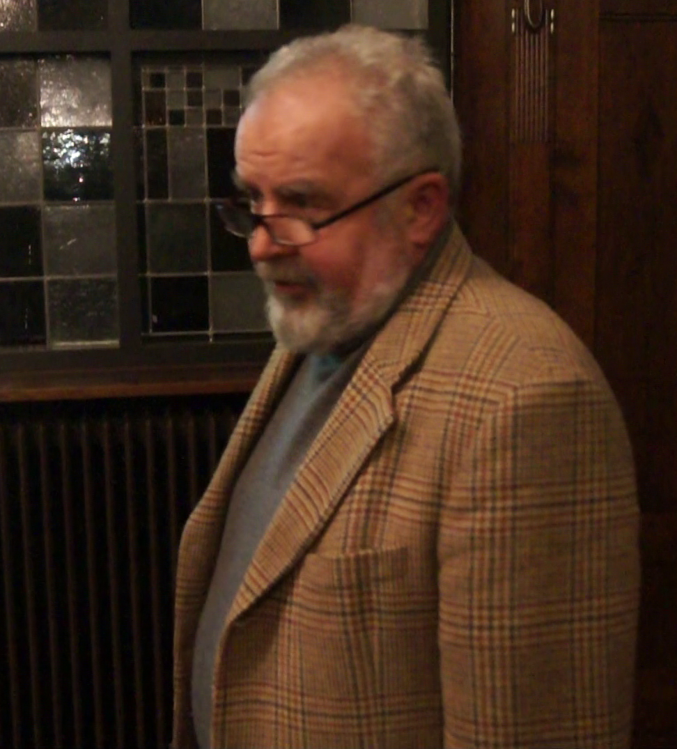 Reinhard Erös is furious about the small projektor. He should held at this evening a lecutre about Afhganistan, but decides not to do that. He was invited by the Stuttgardia Socity in Tübingen.